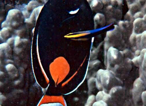 Labroides dimidiatus and in background Acanthurus achilles